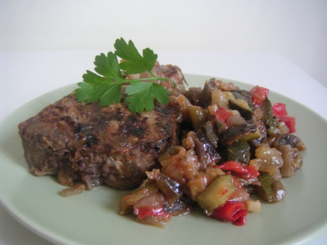 "Samfaina" is a Catalan accompaniment containing eggplant, courgette, onion, red pepper, Italian green pepper, chopped garlic, grated tomatoes and sometimes a small quantity of typical Catalan herbs as chopped parsley, thyme or rosemary. Vegetables are lightly fried in olive oil. Here in the photo it is served with a fillet of tuna fish.